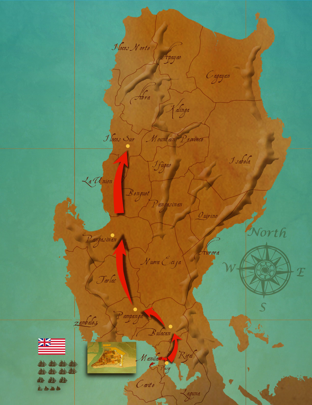 This map shows the chronological advance of British troops toward parts of Northern Luzon during the British Occupation of Manila from 1762 to 1764 during the Seven Years War